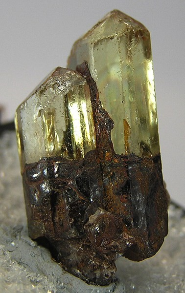 Apatite-(CaF) Locality: Cerro de Mercado Mine, Victoria de Durango, Cerro de los Remedios, Municipio de Durango, Durango, Mexico (Locality at ) Size: 2.4 x 0.9 x 0.8 cm. Two yellow-green pure gem crystals of apatite from Mexico, both terminated, in perfect condition and with glassy luster.